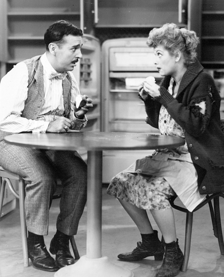 Photo of Tennessee Ernie Ford and Lucille Ball from an episode of I Love Lucy.